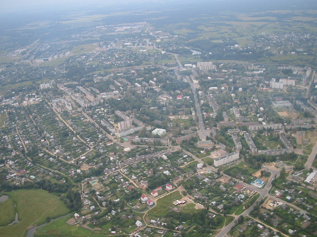 s visoti